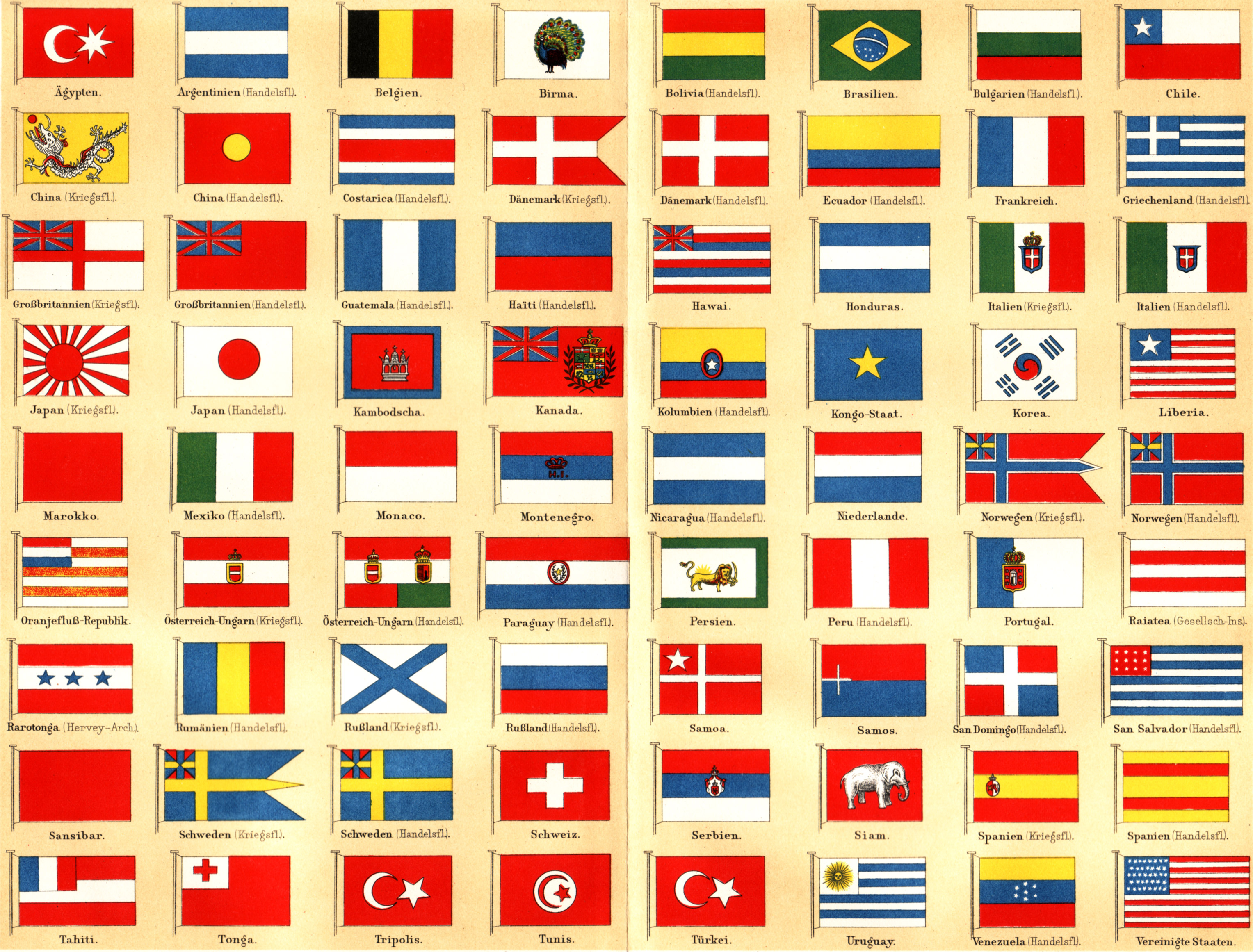 International Flags ca. 1890.